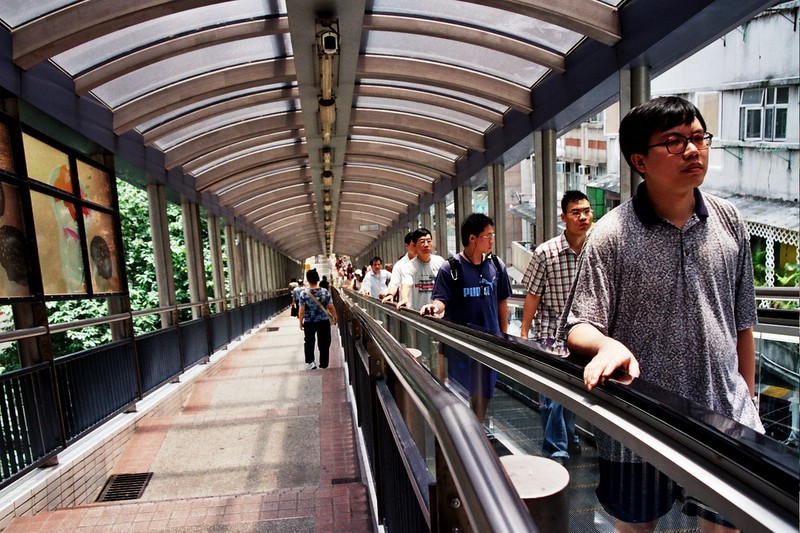 For more pictures and videos of Hong Kong, please visit here. The Central Mid-Level Escalators. The longest covered escalator in the world.